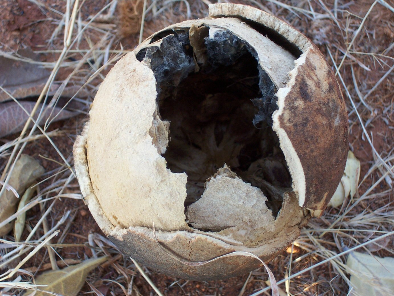 Matamba dried up fruit, showing skin and internal structure. Taken in Zimbabwe.